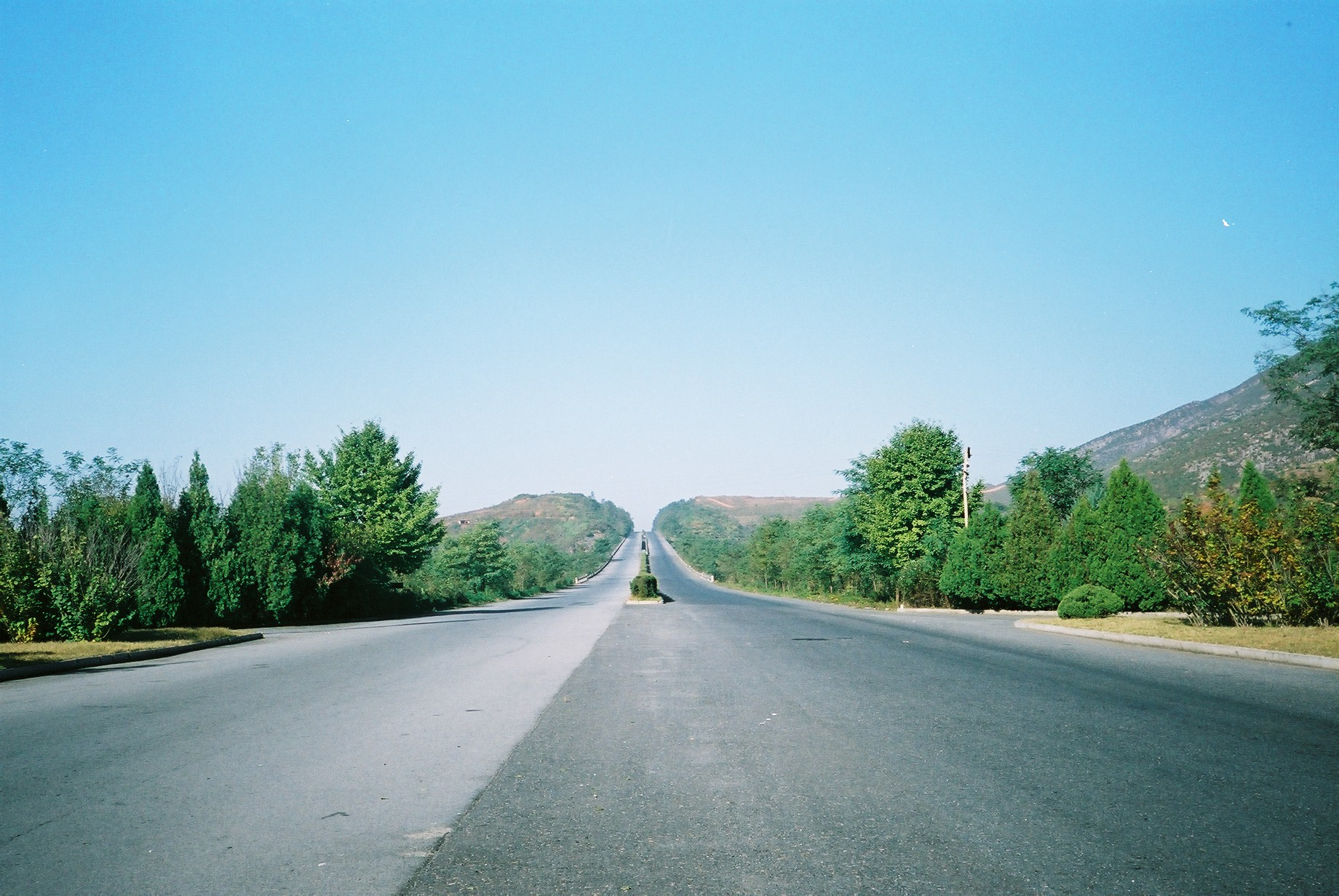 The Reunification Highway links Pyongyang to Panmunjon via Sariwon and Kaesong, Democratic People's Republic of Korea